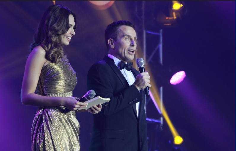 Jason Dasey hosting the AFC Annual Awards, December 2014